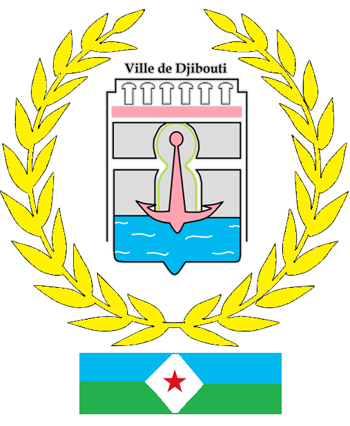 Coat of arms of Djibouti City